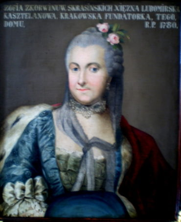 Princess Zofia Lubomirska, nee Korwin Krasińska (1718-1790)